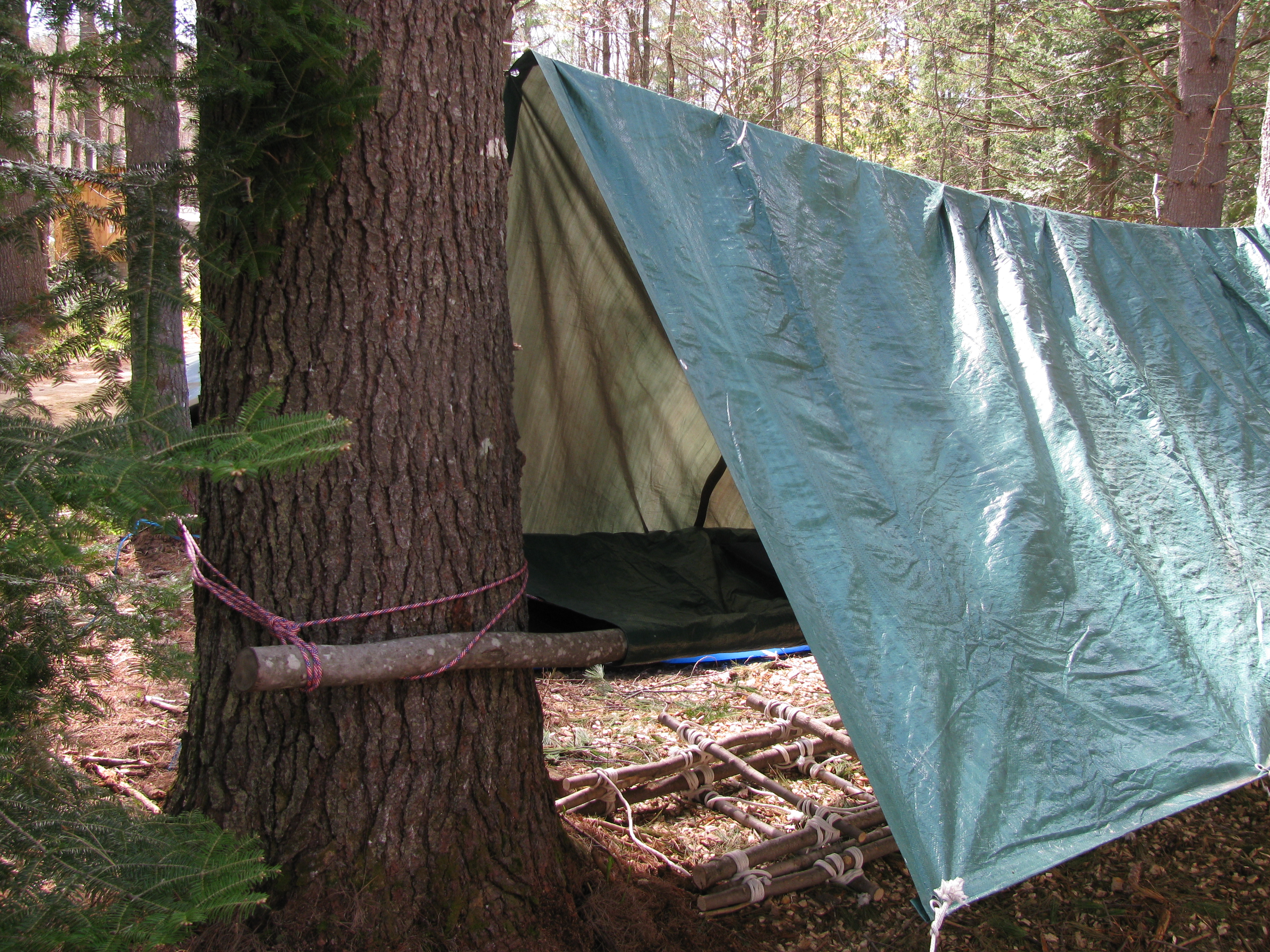 A temporary shelter built with a pair of poles lashed to two trees, some rope, and a tarp.